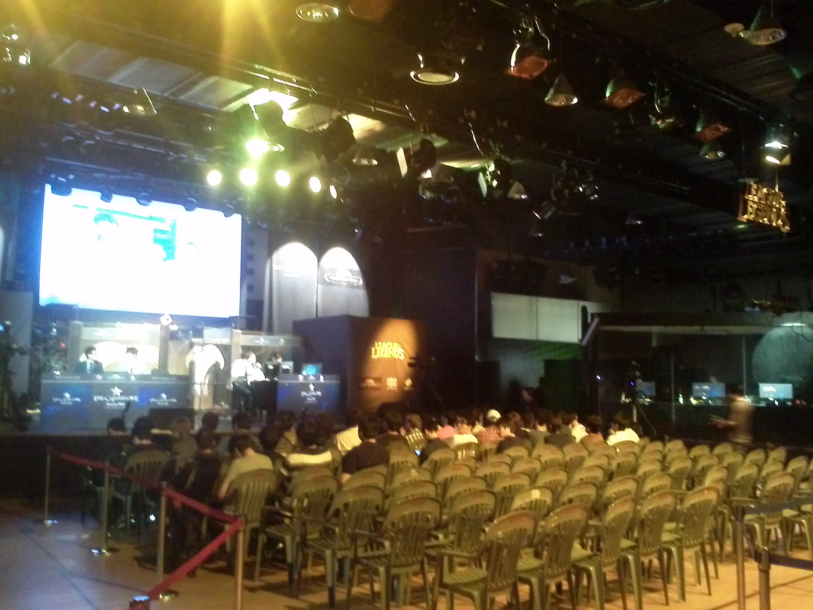 yongsan esports stadium